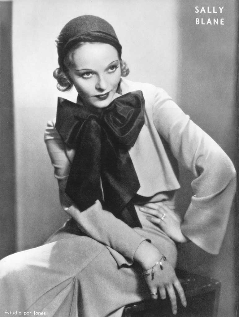 Publicity photo of Sally Blane for Argentinean Magazine. (Printed in USA)